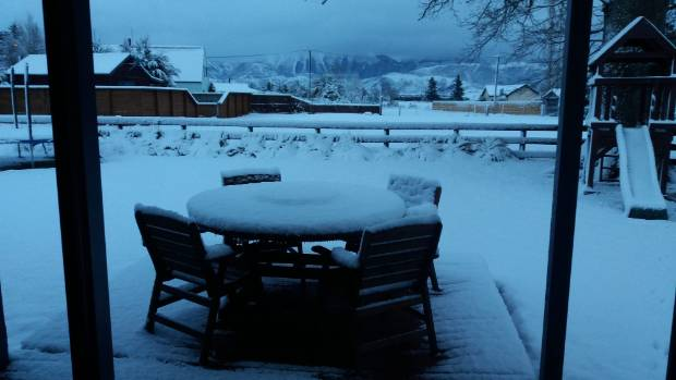 Springfield Wakes up to several inches of snow!